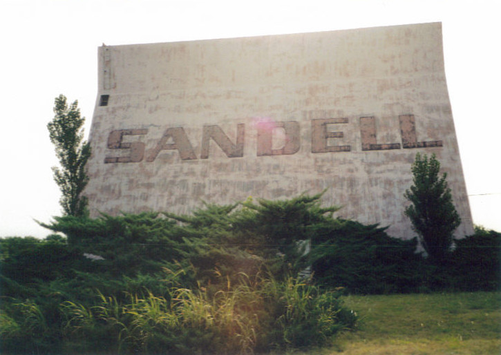 Sandell Drive-in, since relocated to Clarendon.